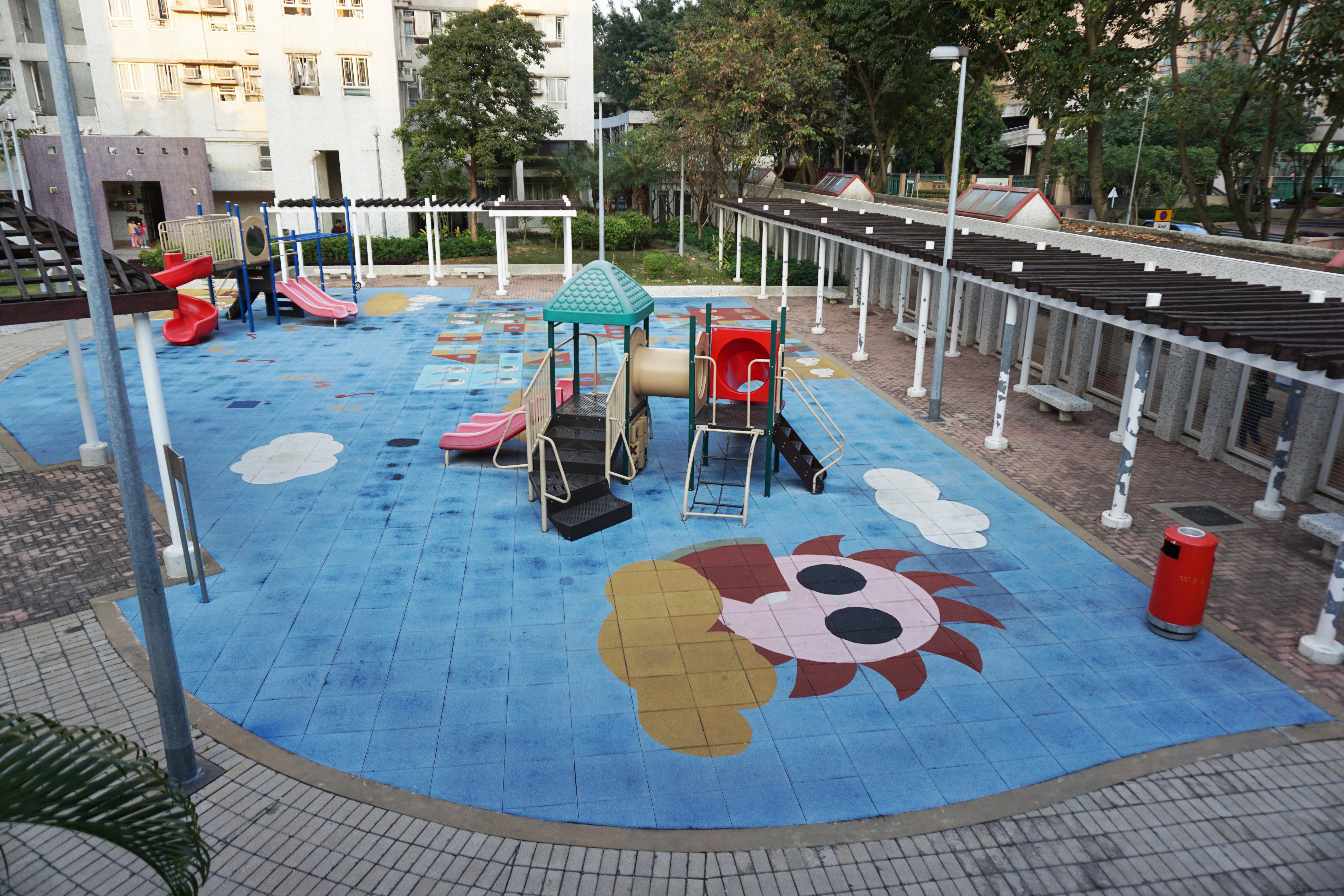 Wing Fai Centre in Fanling, Hong Kong.